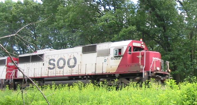 Soo Line 6022, an EMD SD60, pulls a Westbound train through Wisconsin Dells, WI. Photo by Sean Lamb (User:Slambo), June 20 2004